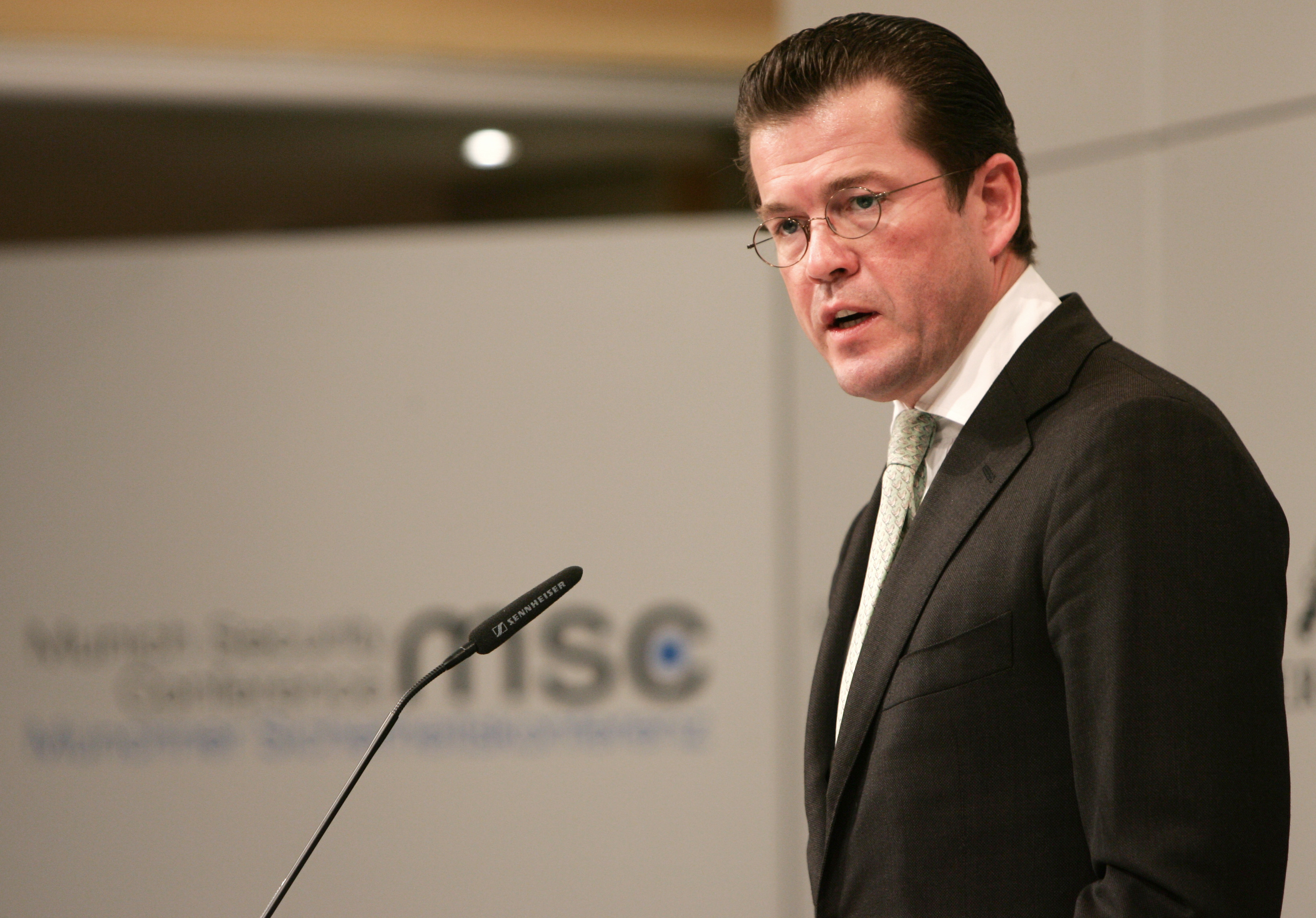 47th Munich Security Conference 2011: Karl-Theodor Freiherr zu Guttenberg, Minister of Defense, Germany.